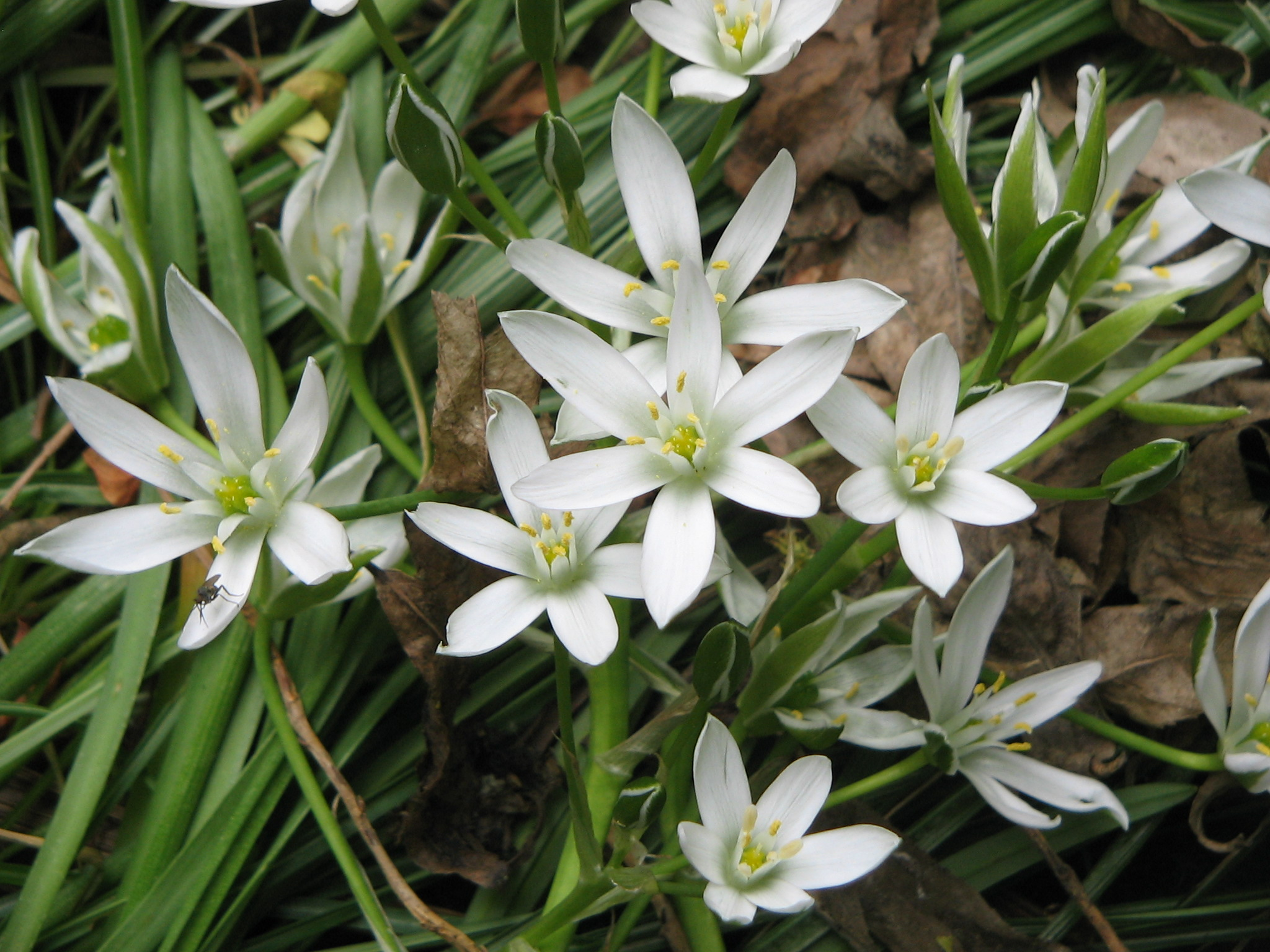 Ornithogalum umbellatum close-up